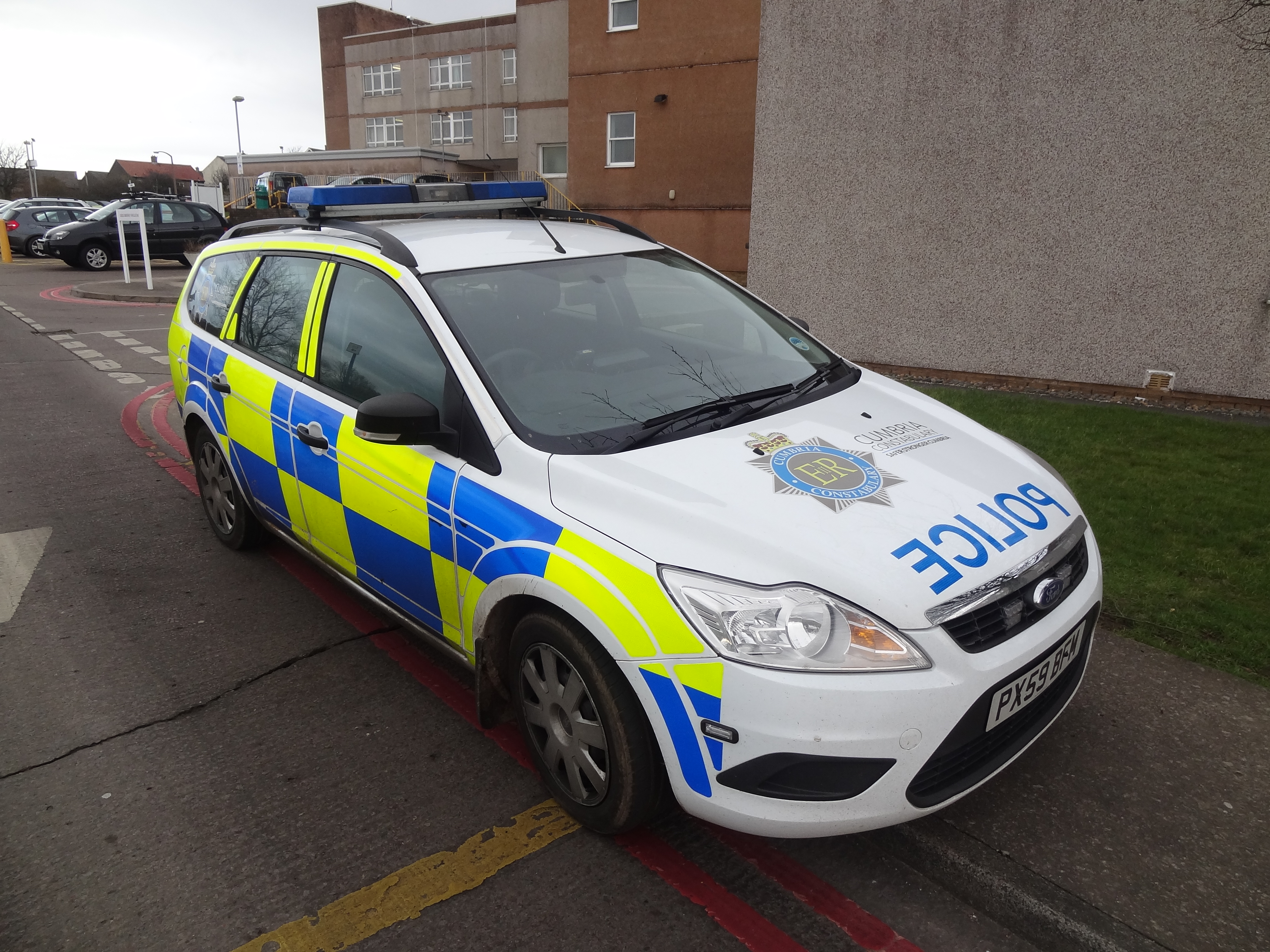 Cumbria police car, with "POLICE" in mirror writing ("ECILOP").